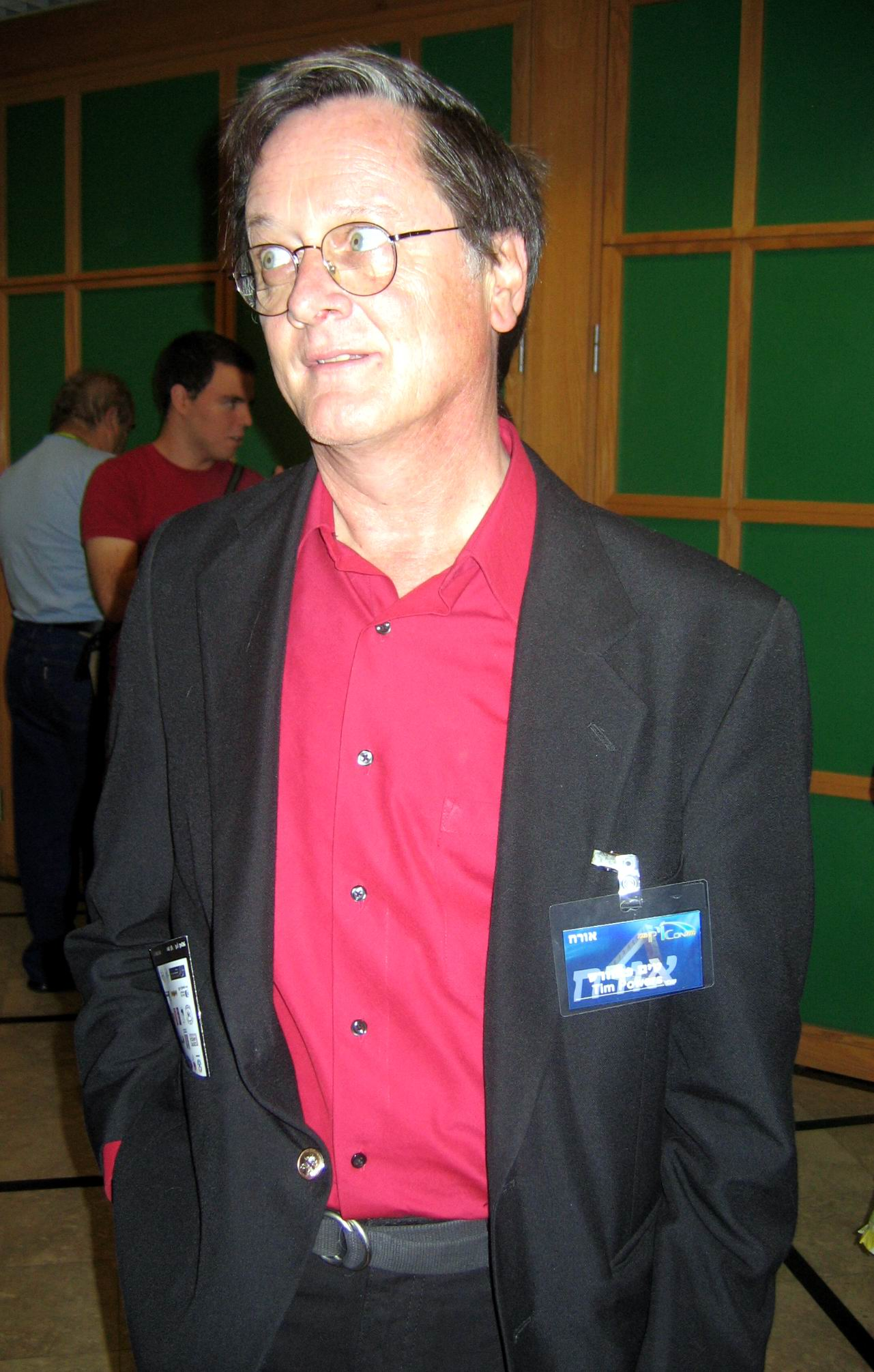 Tim Powers, the Science Fiction and Fantasy writer, at the Israeli SF, F & Role-Playing Festival, ICon 2005, in Tel Aviv. Taken by Beny Shlevich on Oct. 18th, 2005. Permission was given by Powers for his photo to be published on Wikipedia. Also featured on Flickr.